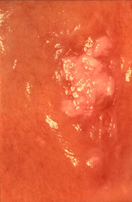 These images are part of the 2013 publication from the NIH "Detecting Oral Cancer: A Guide for Health Care Professionals". Available on the 15/7/14 at Clinically, a leukoplakia on left buccal mucosa. However, the biopsy showed early squamous cell carcinoma. The lesion is suspicious because of the presence of nodules.